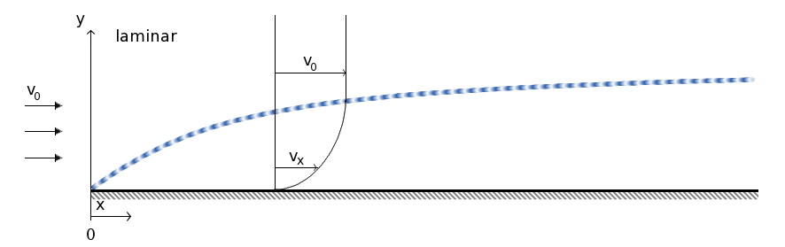 Laminar boundary layer